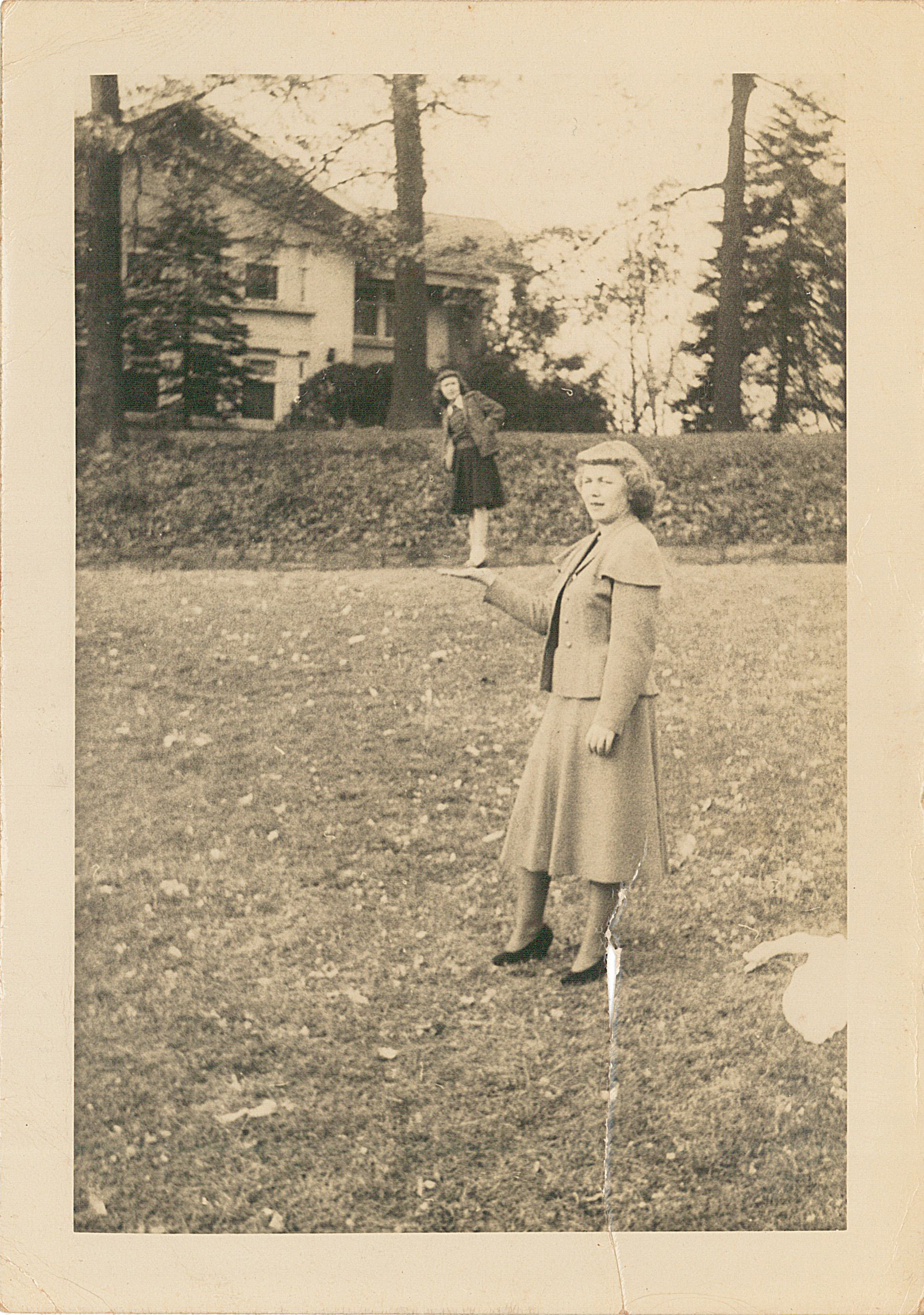 Gail Godwin at the age of 13 with her mother, who had a strong influence on her interest in writing.